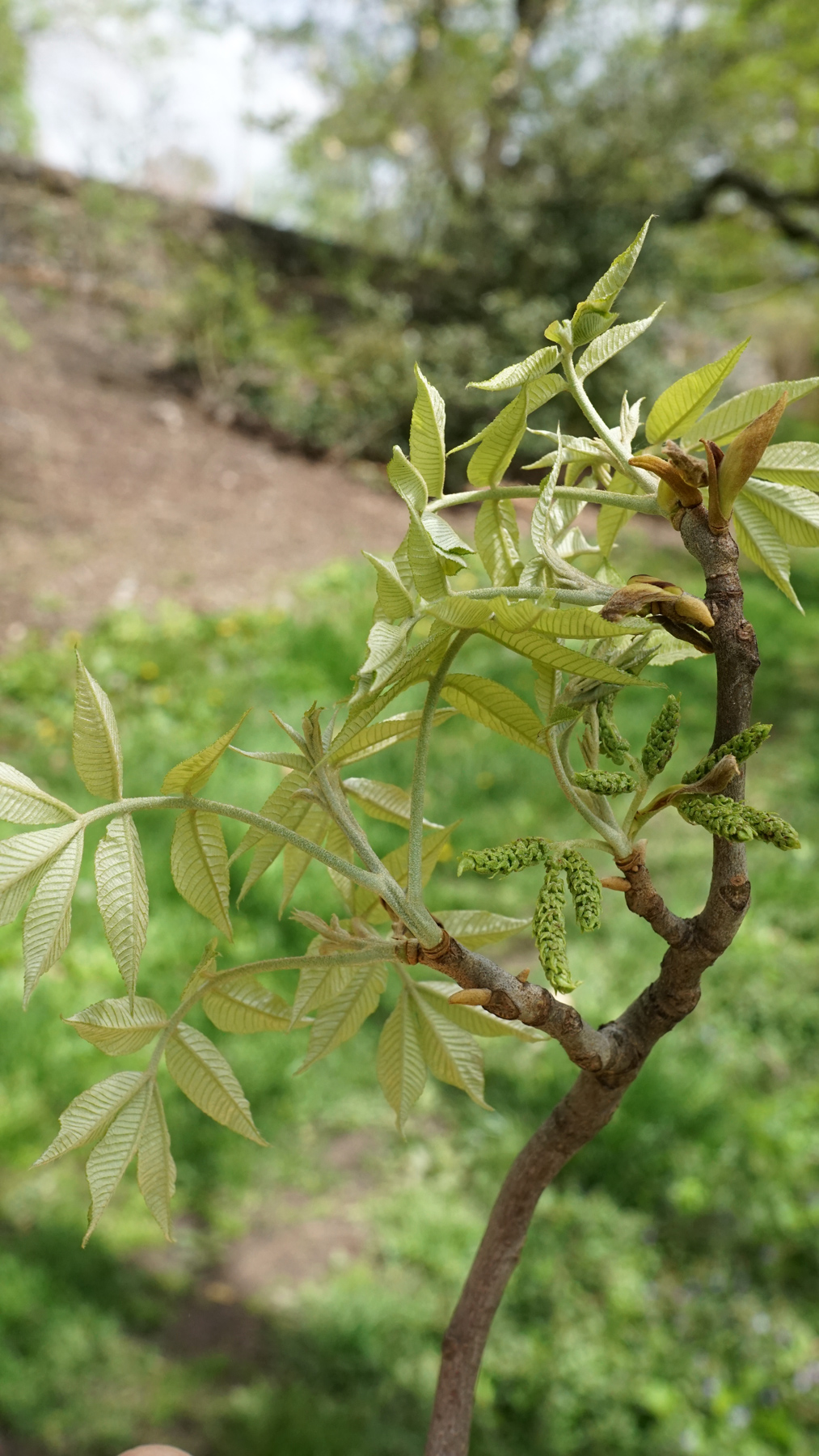 Carya myristiciformis (Nutmeg Hickory)